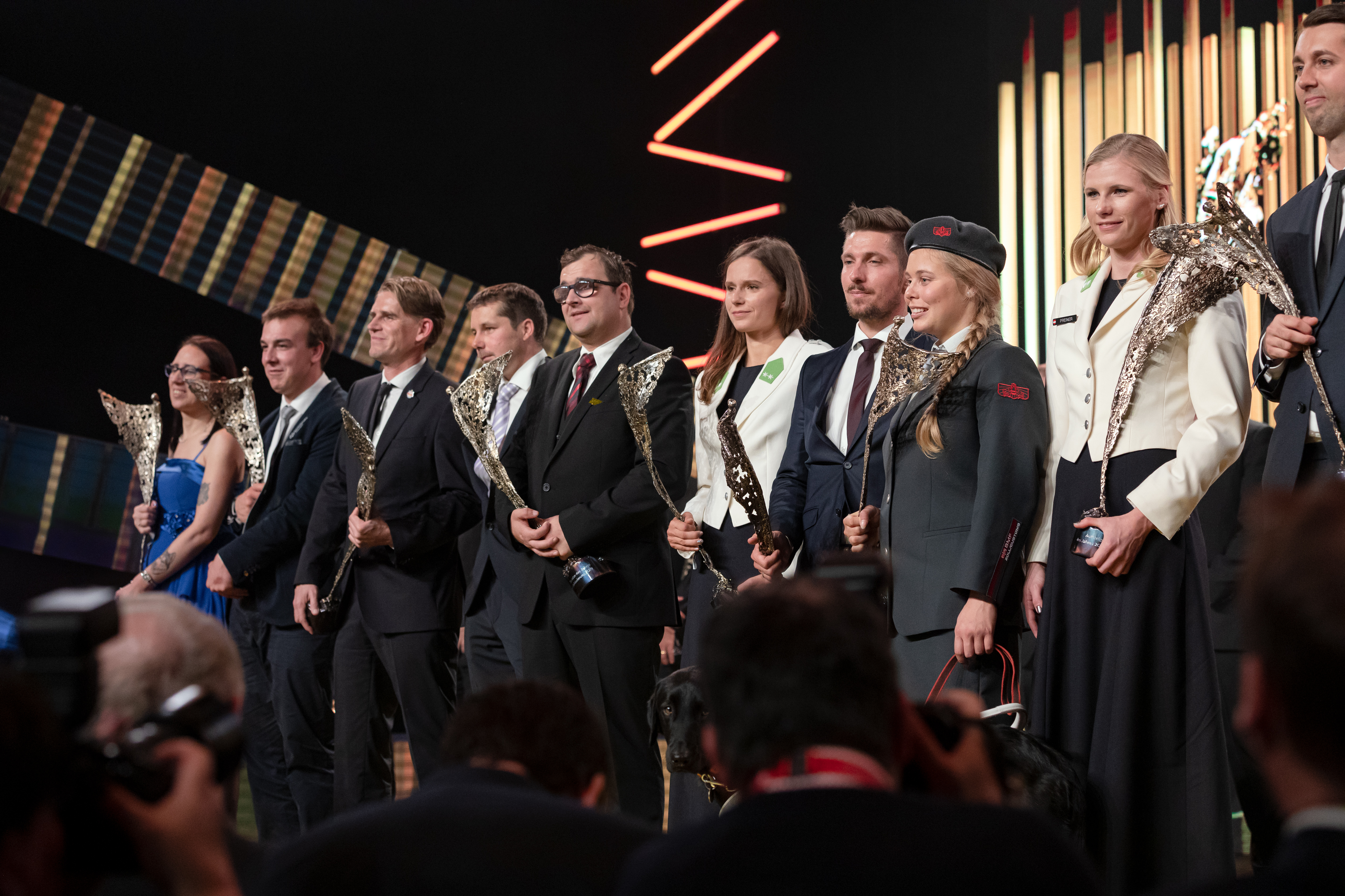 The Austrian Sports Personalities of the Year 2019 (Marx Halle, Sankt Marx, Vienna, Austria).